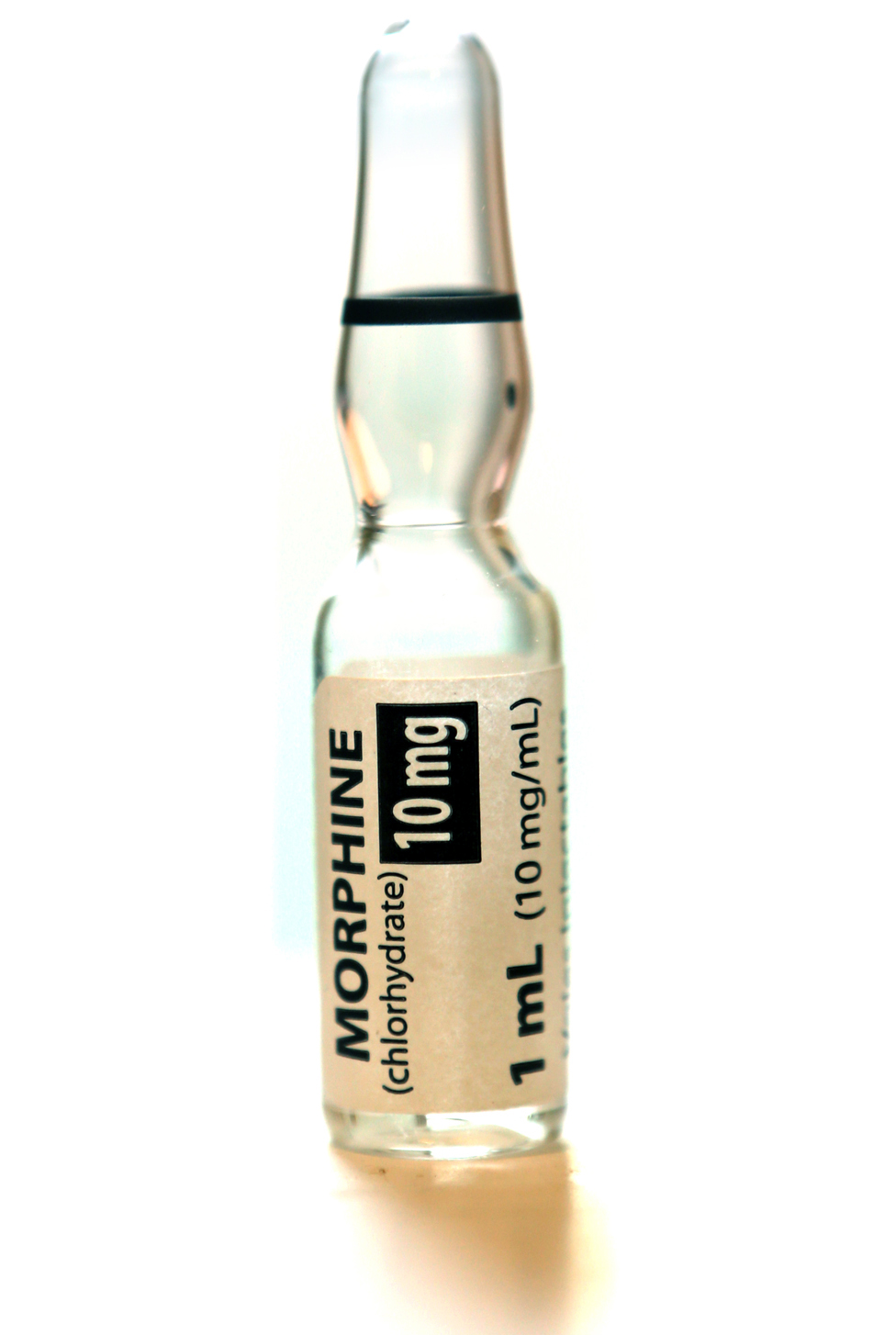 A 1mL vial containing morphine HCL, with a concentration of 10mg/mL.